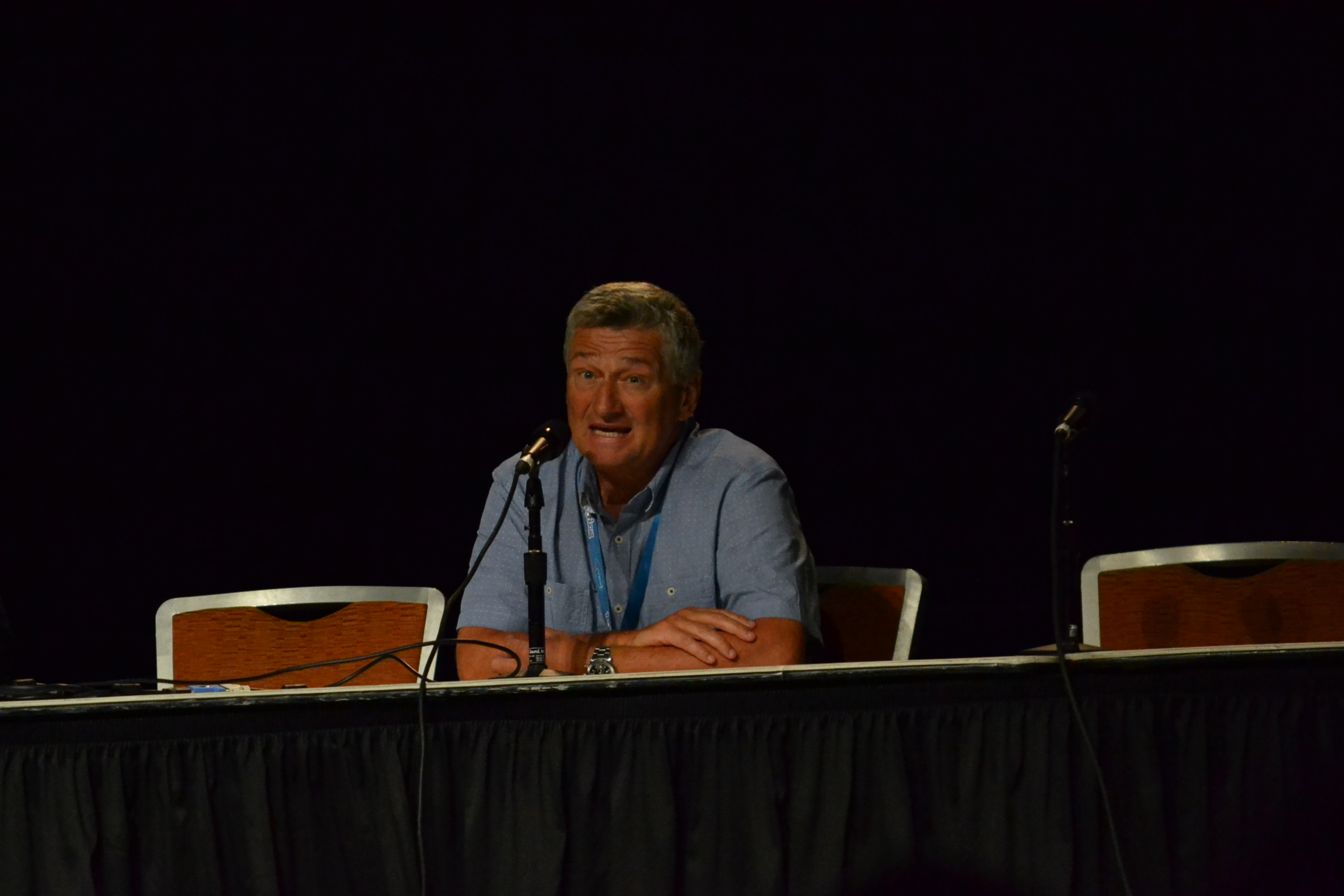 Terry Klassen at BronyCon in 2014